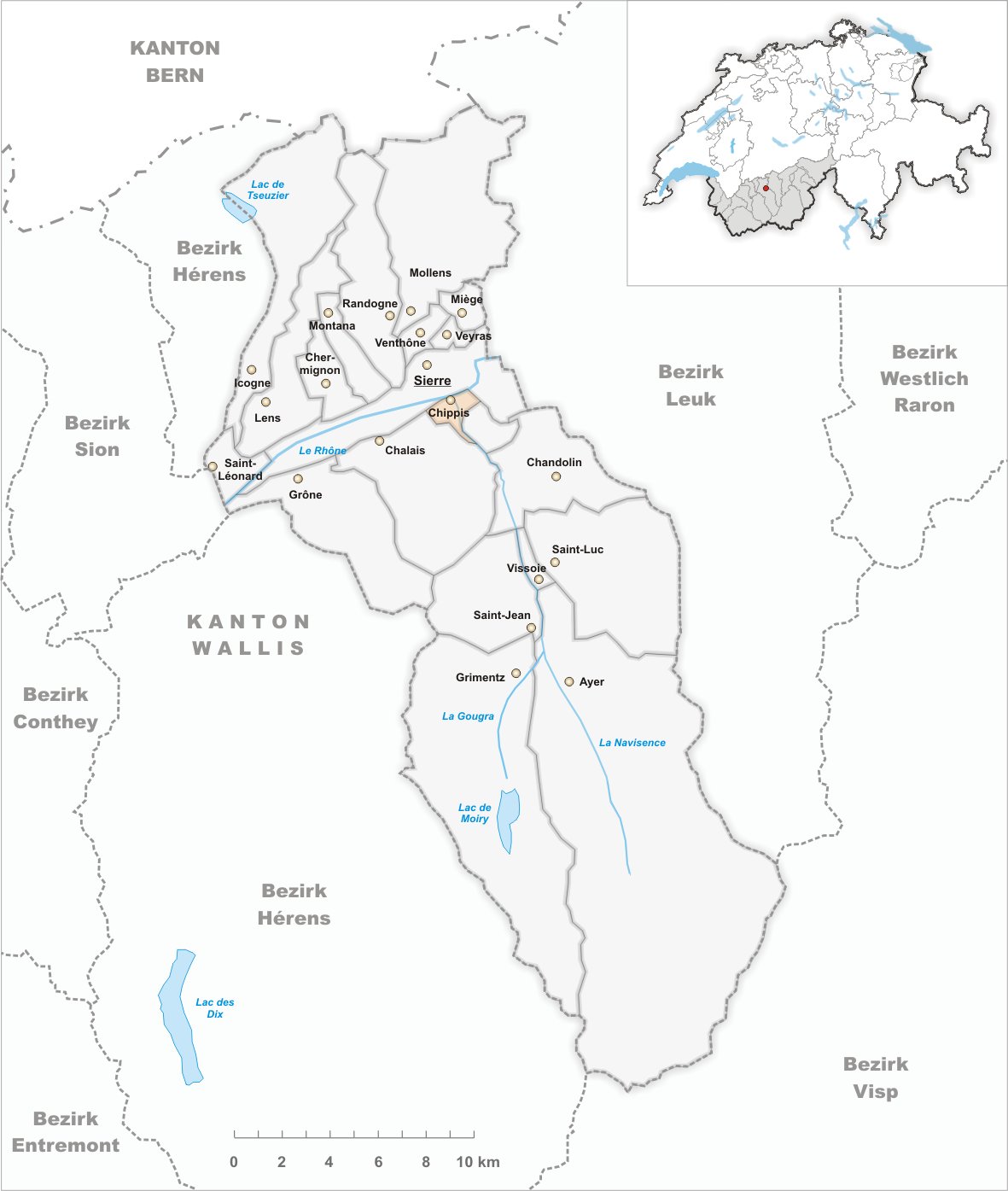 Municipality Chippis